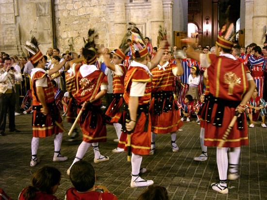 third folk troupe in the Virgin of Salut feasts perform their stick dance in front of Saint James church in Algemesí